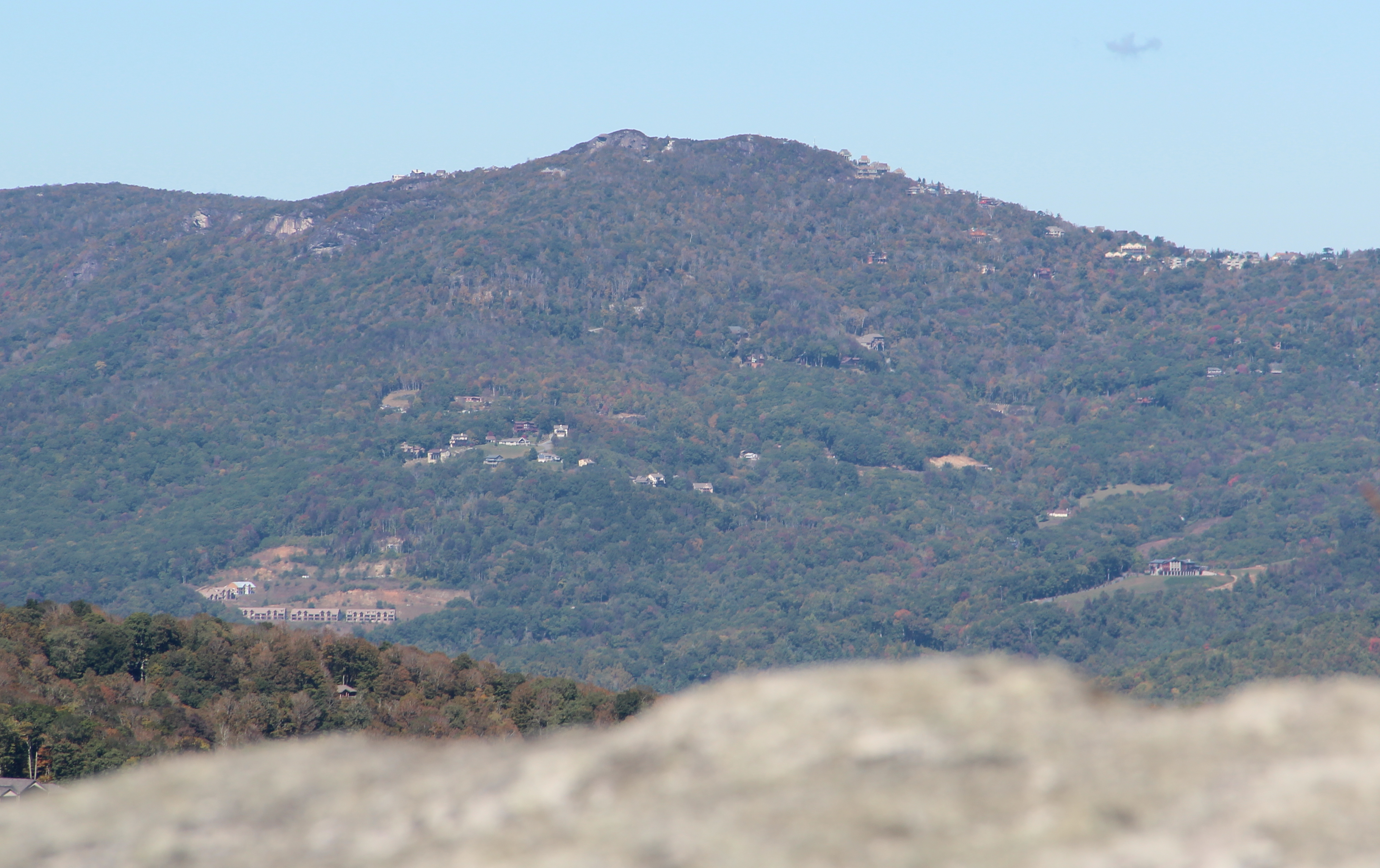 Beech Mountain viewed from Grandfather Mountain, Oct 2016